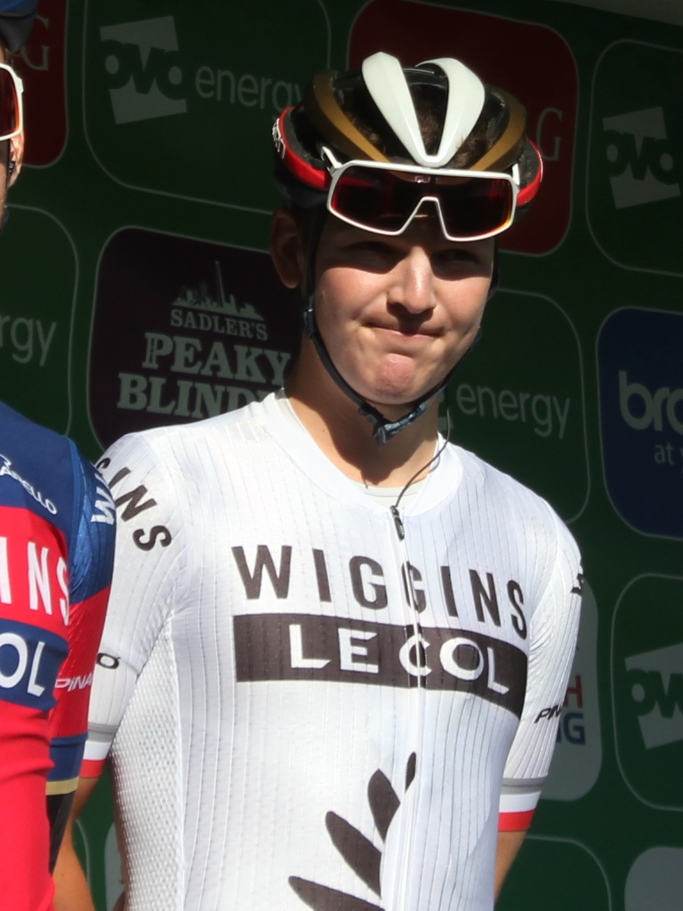 New Zealand road racing champion James Fouche at the start of the 2019 Tour of Britain when he rode for Wiggins Le Col.